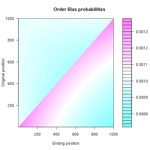 The probability that an element i of the initial arrangement will end up at position j, is given by the value at point i, j. Made with R language.